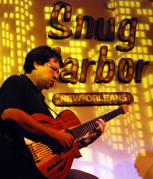 Steve Masakowski playing at Snug Harbor, New Orleans, Lousiana